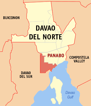 Map of the Davao del Norte showing the location of Panabo